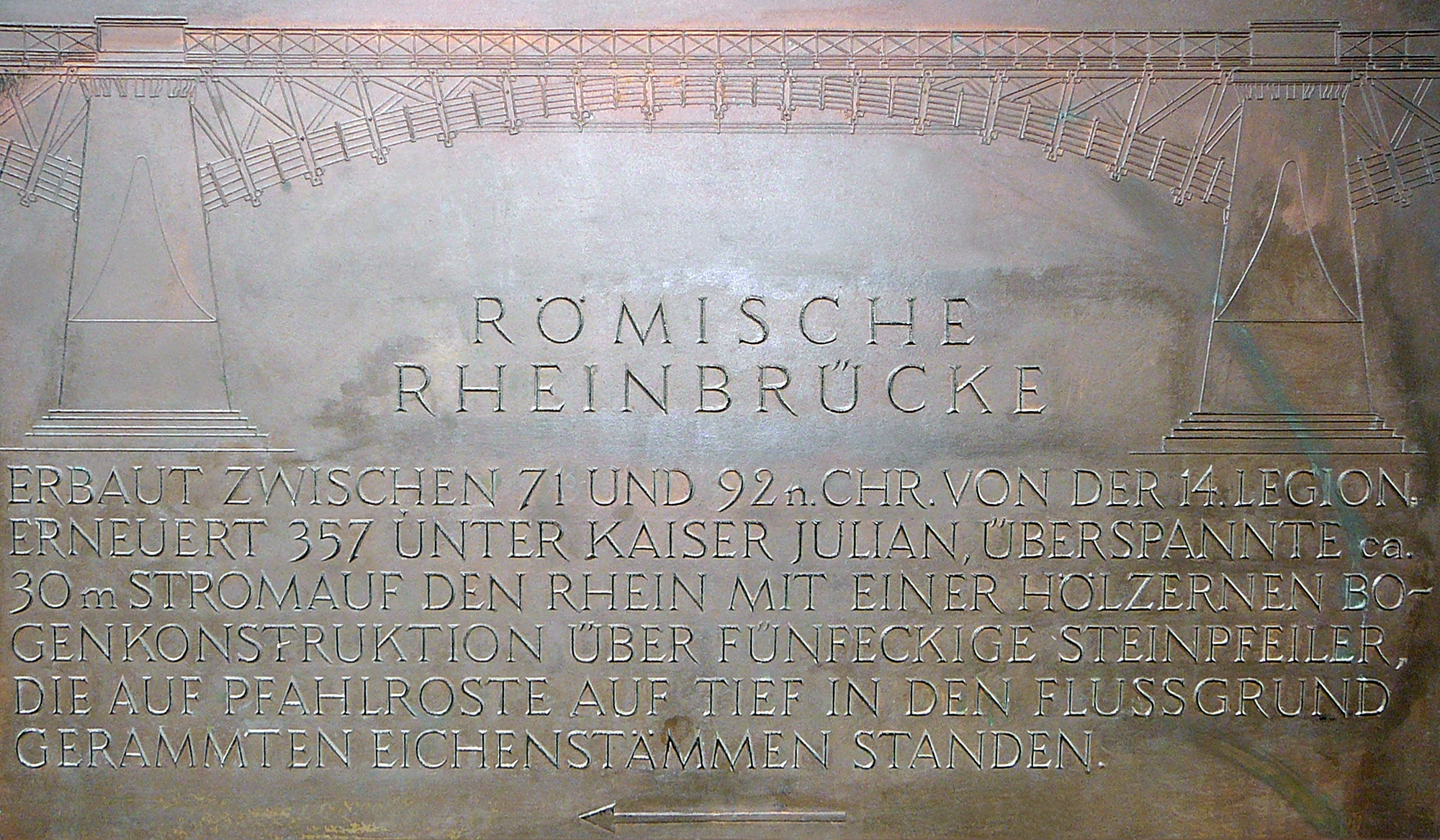 Modern bronze plate of the Roman bridge at Mainz. The plate is attached to the pier of the Theodor-Heuss-Brücke on the left bank of the Rhine, ca. 30 m from the past location of the ancient bridge. The construction date of the stone pier bridge has been antedated by recent research to 30 AD.